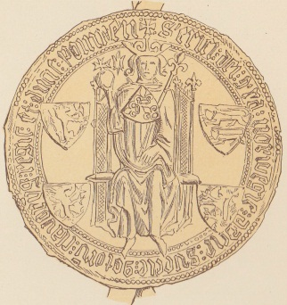 Seal of King Eric of Pomerania (to Denmark, Sweden and Norway), based on two documents, dated 16 April 1392, Oslo, and 29 August 1398, Copenhagen. Featuring the coat of arms of Norway, Pomerania, the House of Bjelbo/Folkung and Denmark. Text: "✠ s : erici : dei : gracia : norwegie : dacie : svecie : gotorvm : slavorvmqve : regis : et : dvcis : pomreni". Size: 75 mm.